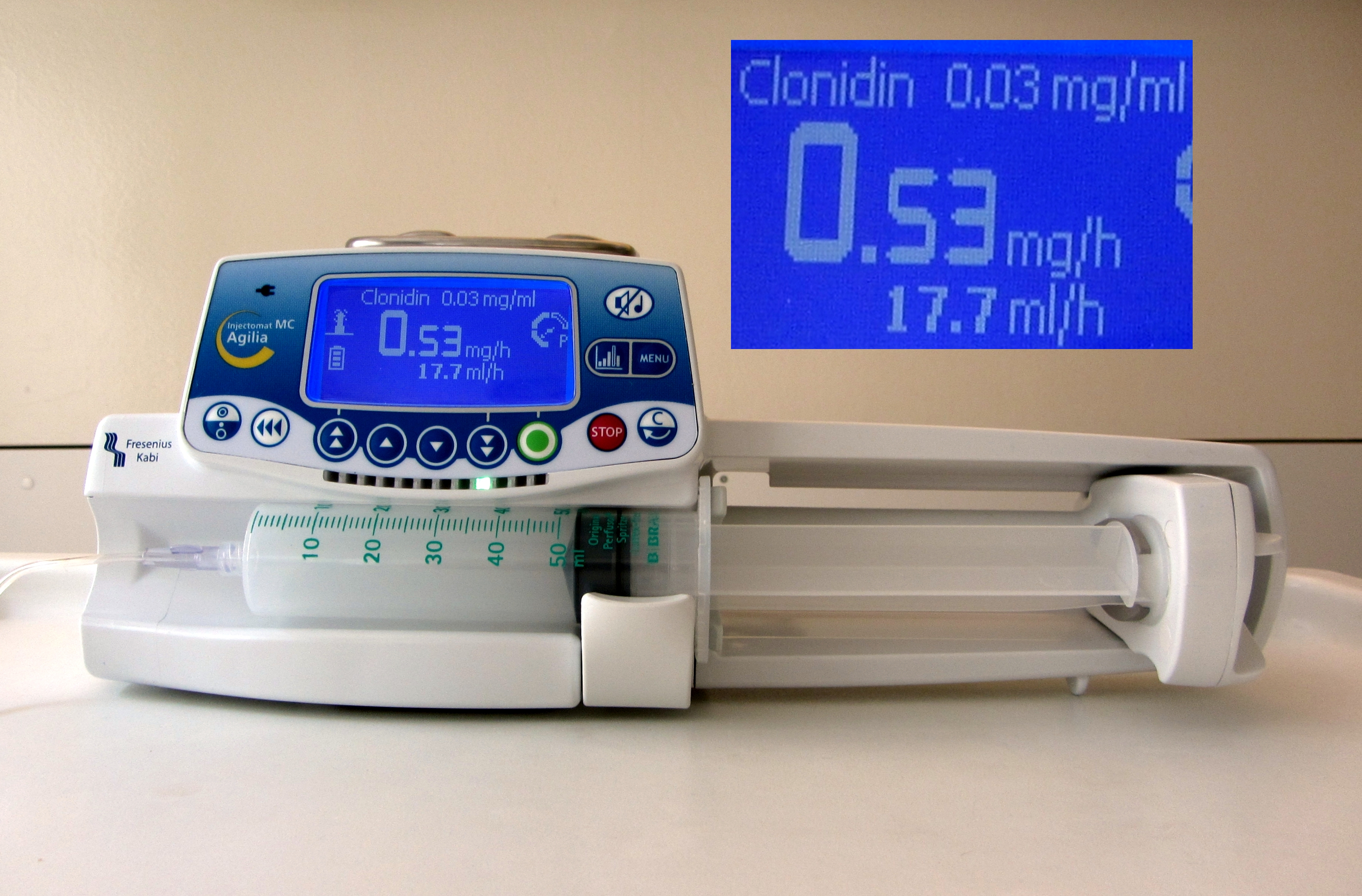 Fresenius Incectomat Agilia, Syringe driver